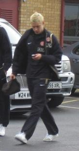 Alan Smith at Manchester United's training ground. Cropped from original source.